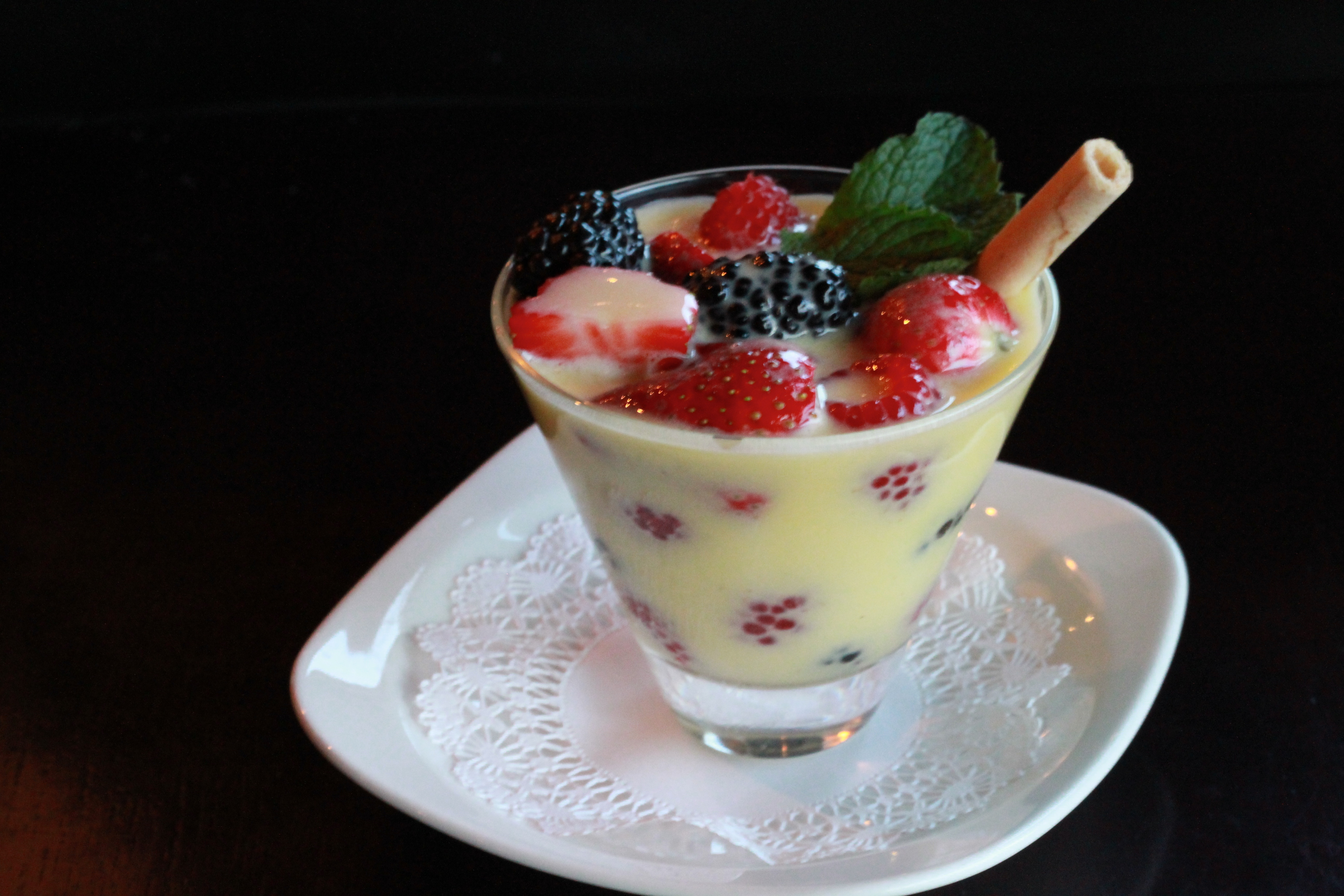 Sabayon with mixed berries.